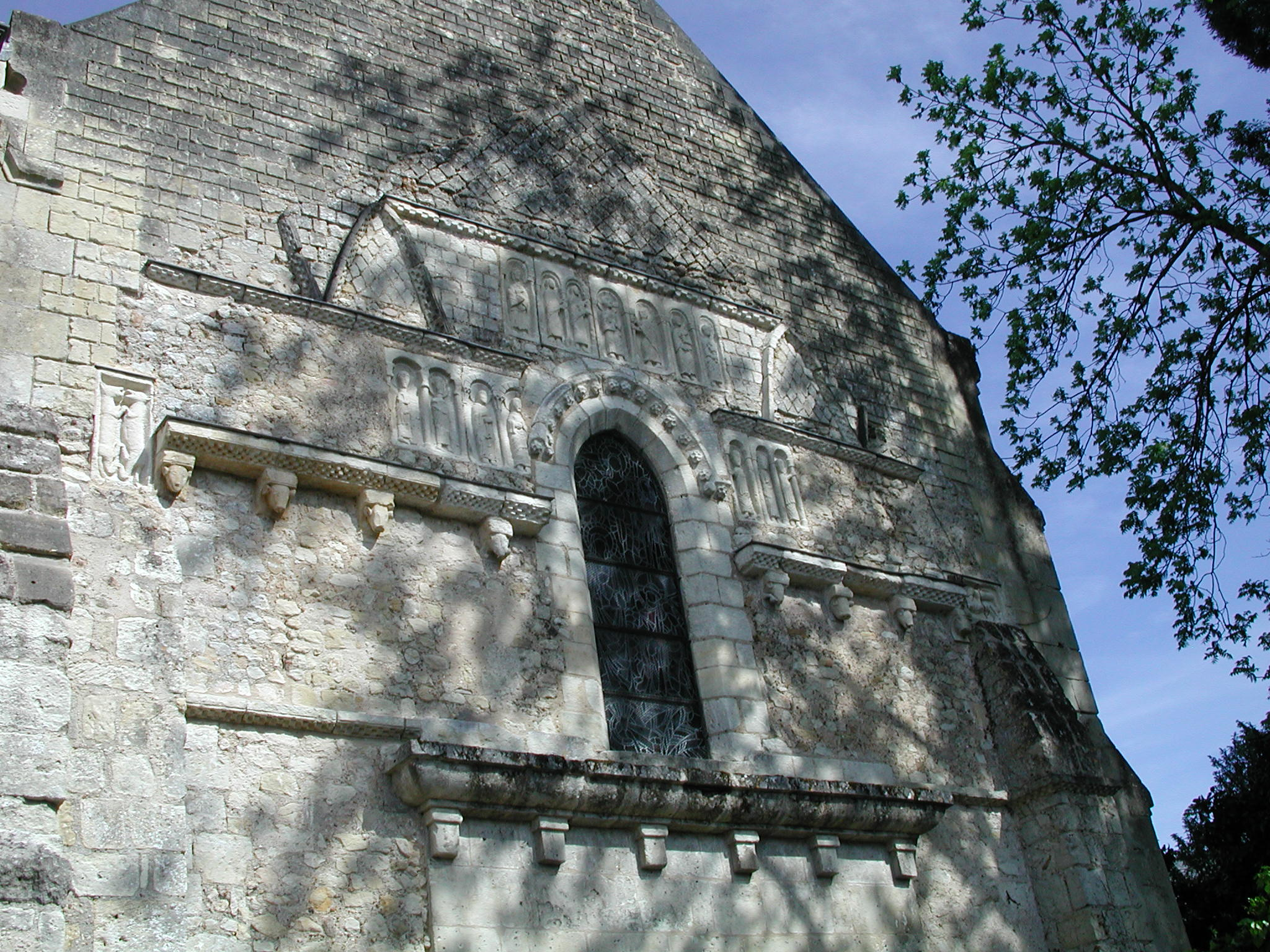 Photograph of the older, inset, Carolingian façade of the church of St. Symphorien at Azay-le-Rideau